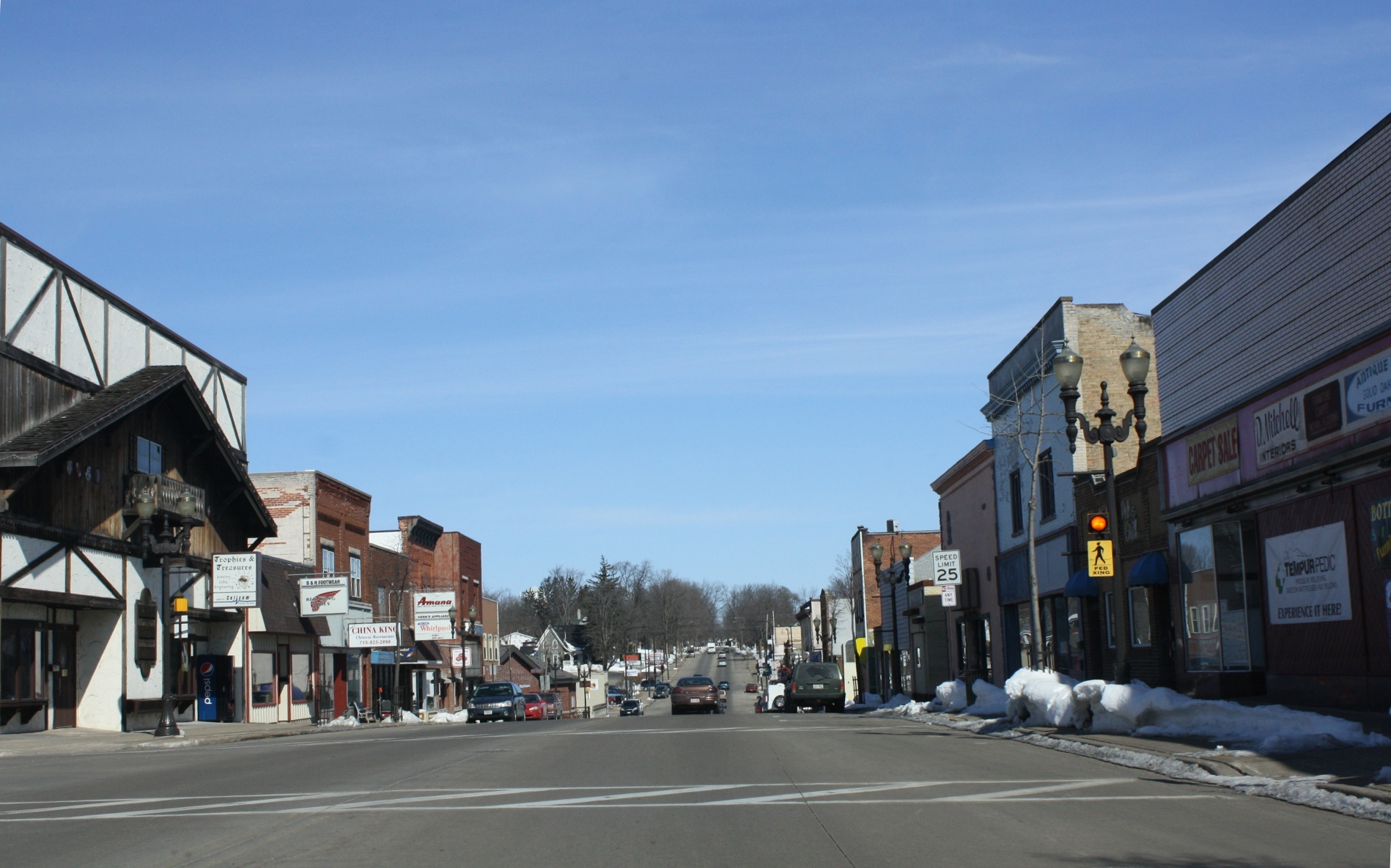 Looking south at downtown Clintonville, Wisconsin.